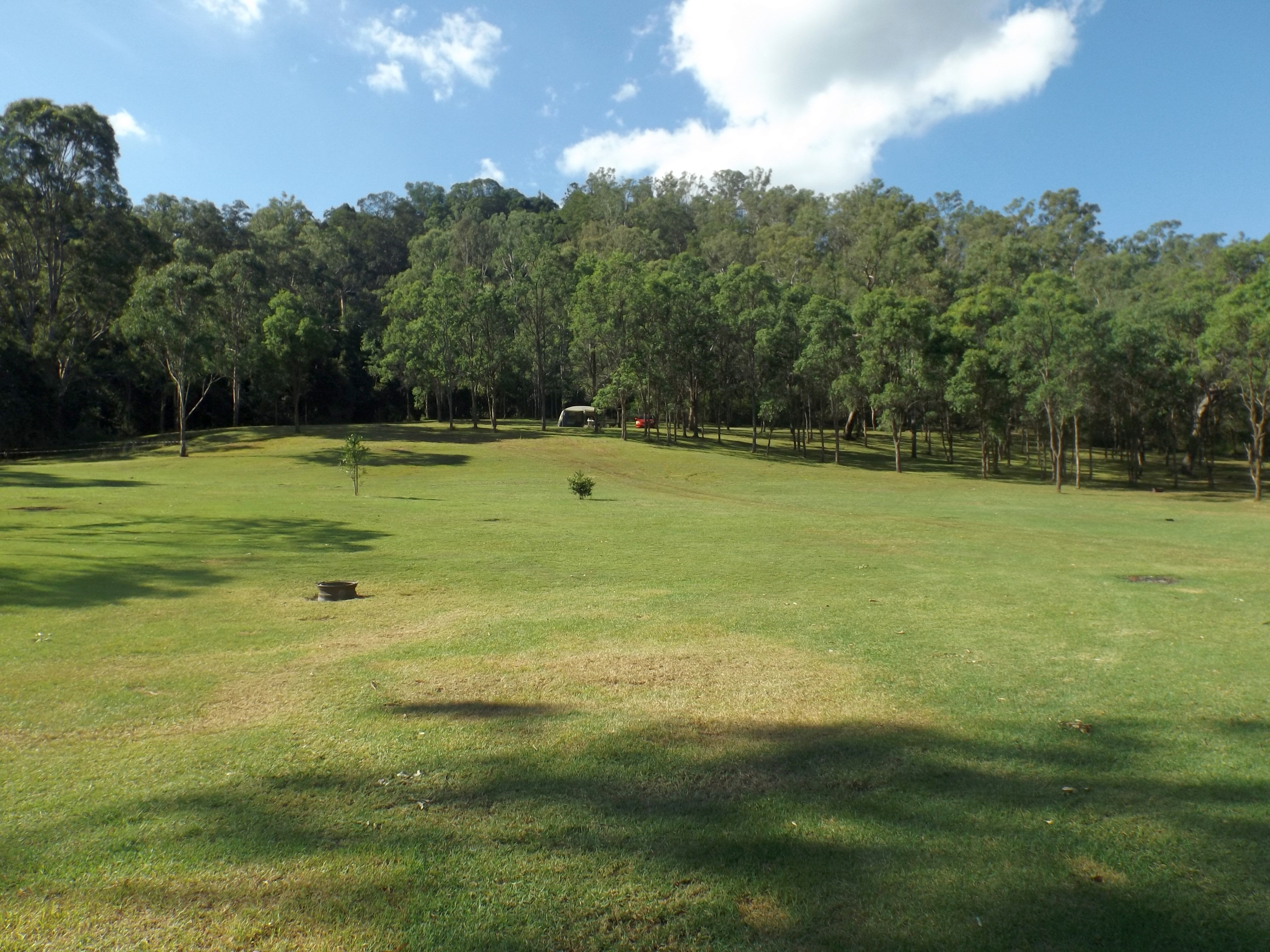 Photo of Andrew Drynan Park and Mount Chingee National Park at Running Creek, Scenic Rim Region, Queensland, Australia.